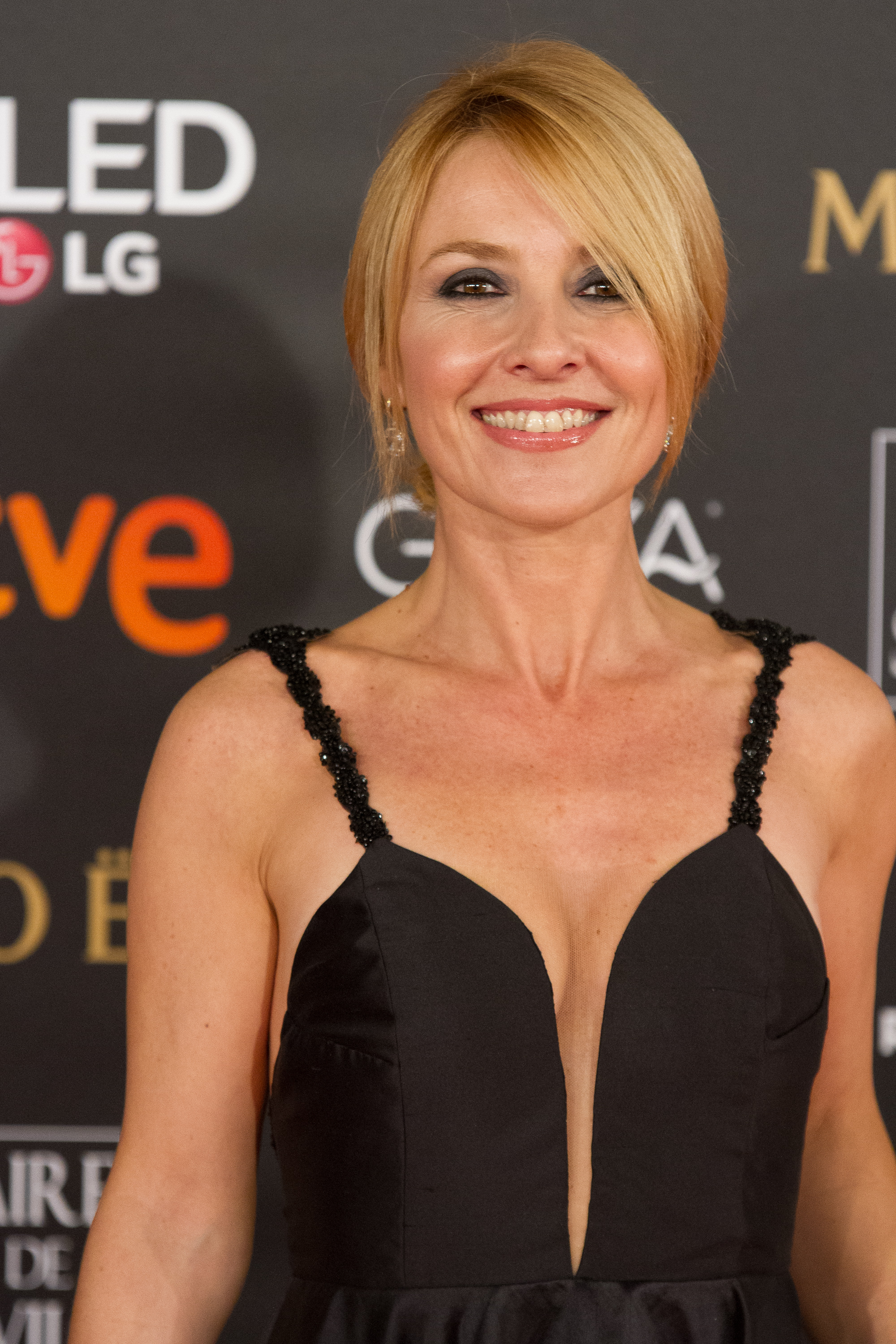 32nd Goya Awards, 2018.